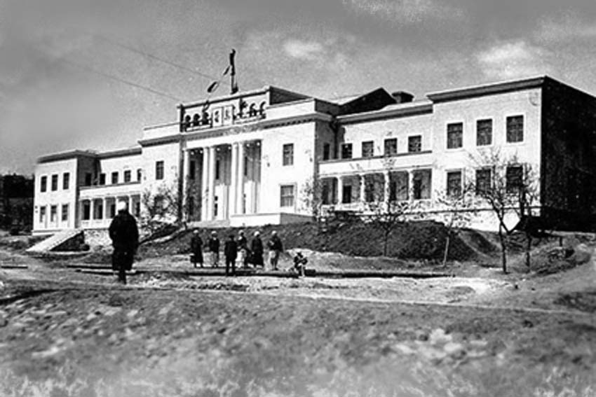 House of Culture for Sailors. Mariupol. 1940. This is a photograph of the object in the year of its creation. The original appearance of the structure is lost. It is currently impossible to take a photograph of this building.